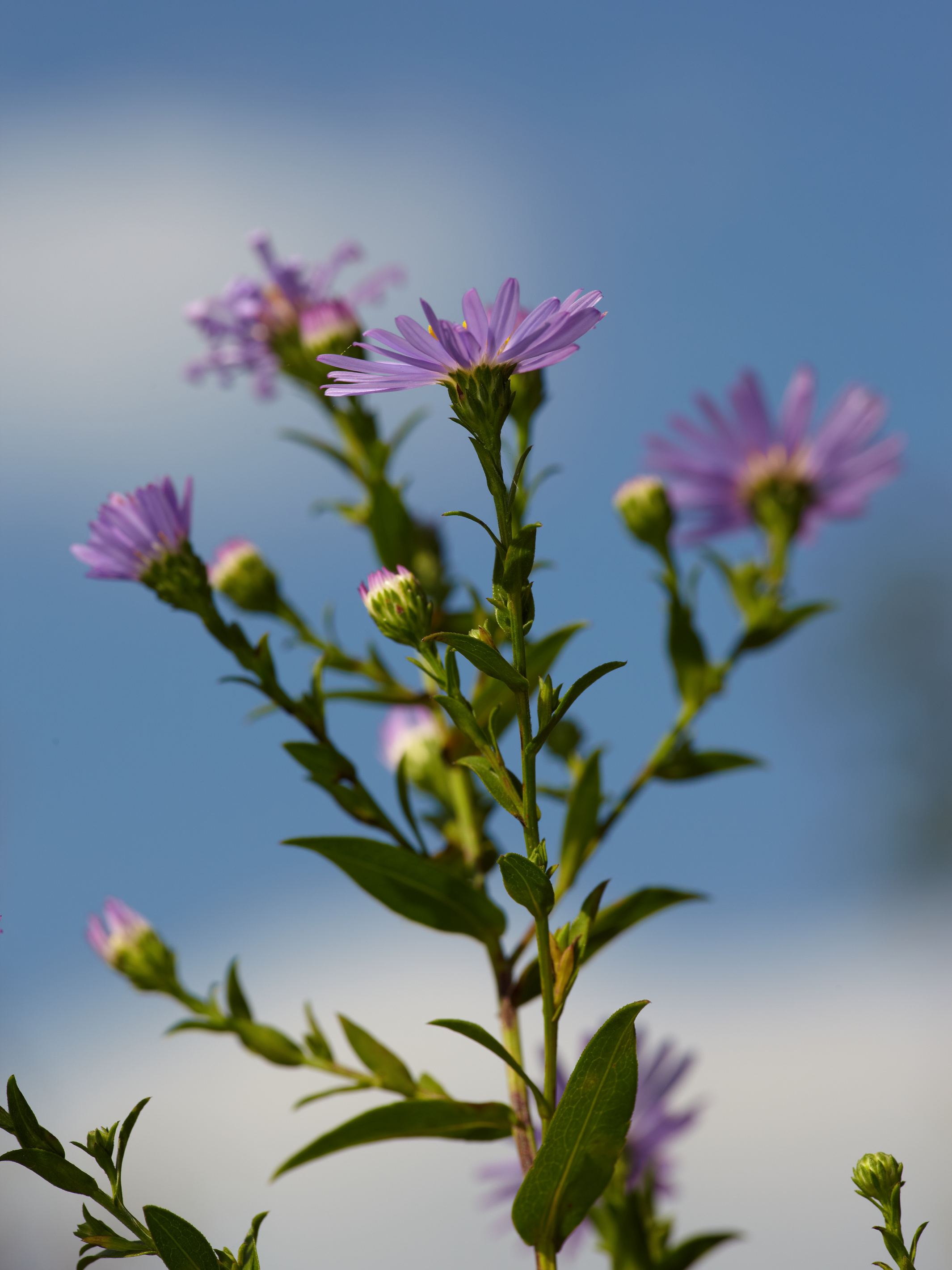 Symphyotrichum novi-belgii